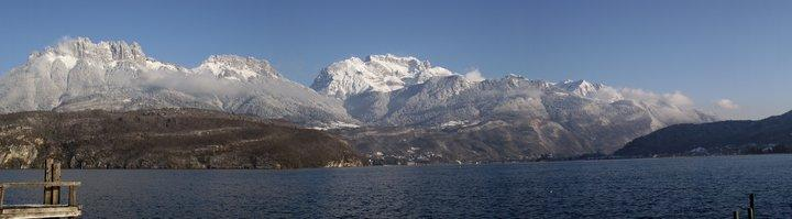 Sight on the lake of Annecy seen from the pier of St-Joriozs harbour in Haute-Savoie, France.